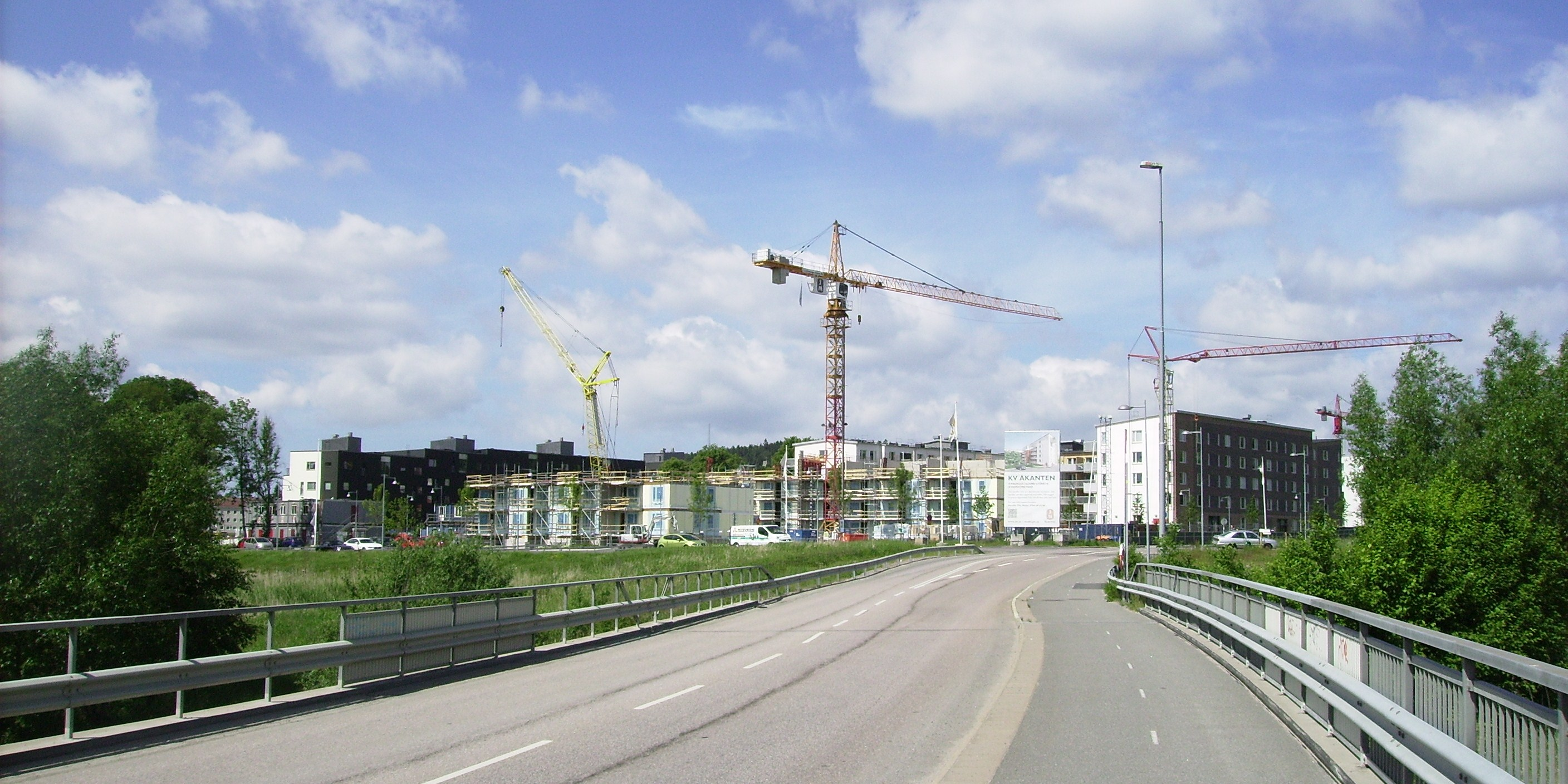 Picture of section of Kvibergsstaden in Göteborg. View from the other side of Säveån (river), with the bridge in the foreground.